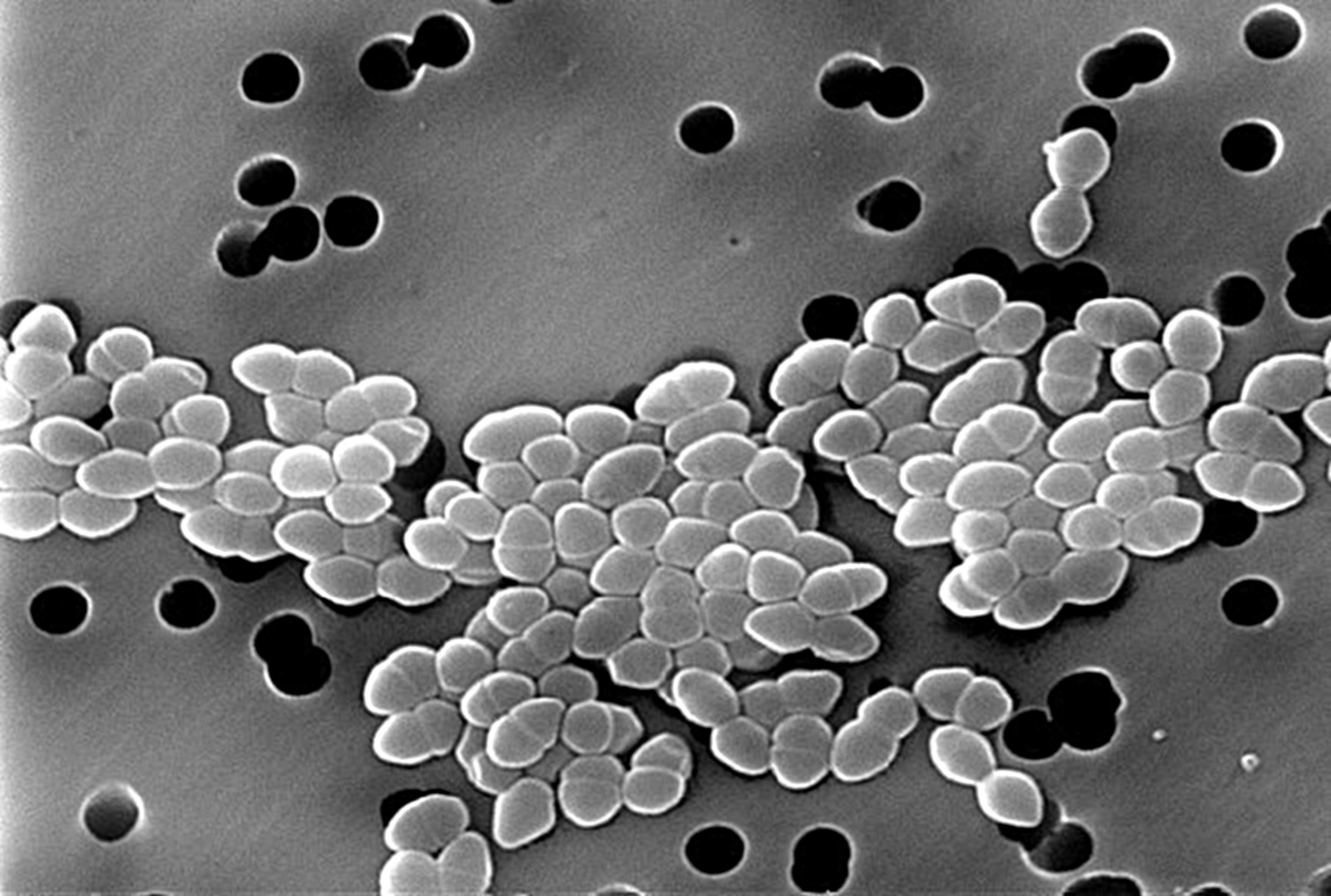 Scanning Electron Micrograph of Vancomycin Resistant Enterococci